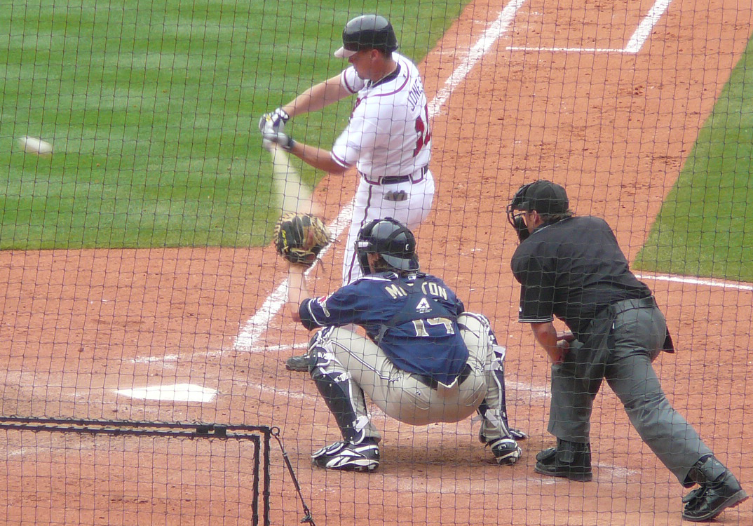 Please attribute this photo by name if used in places other than Wikipedia. 07:10, 29 May 2008 . . Chrisjnelson . . 1,074×750 (864 KB)